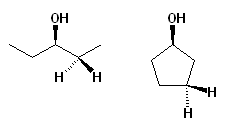 chemical structural drawings